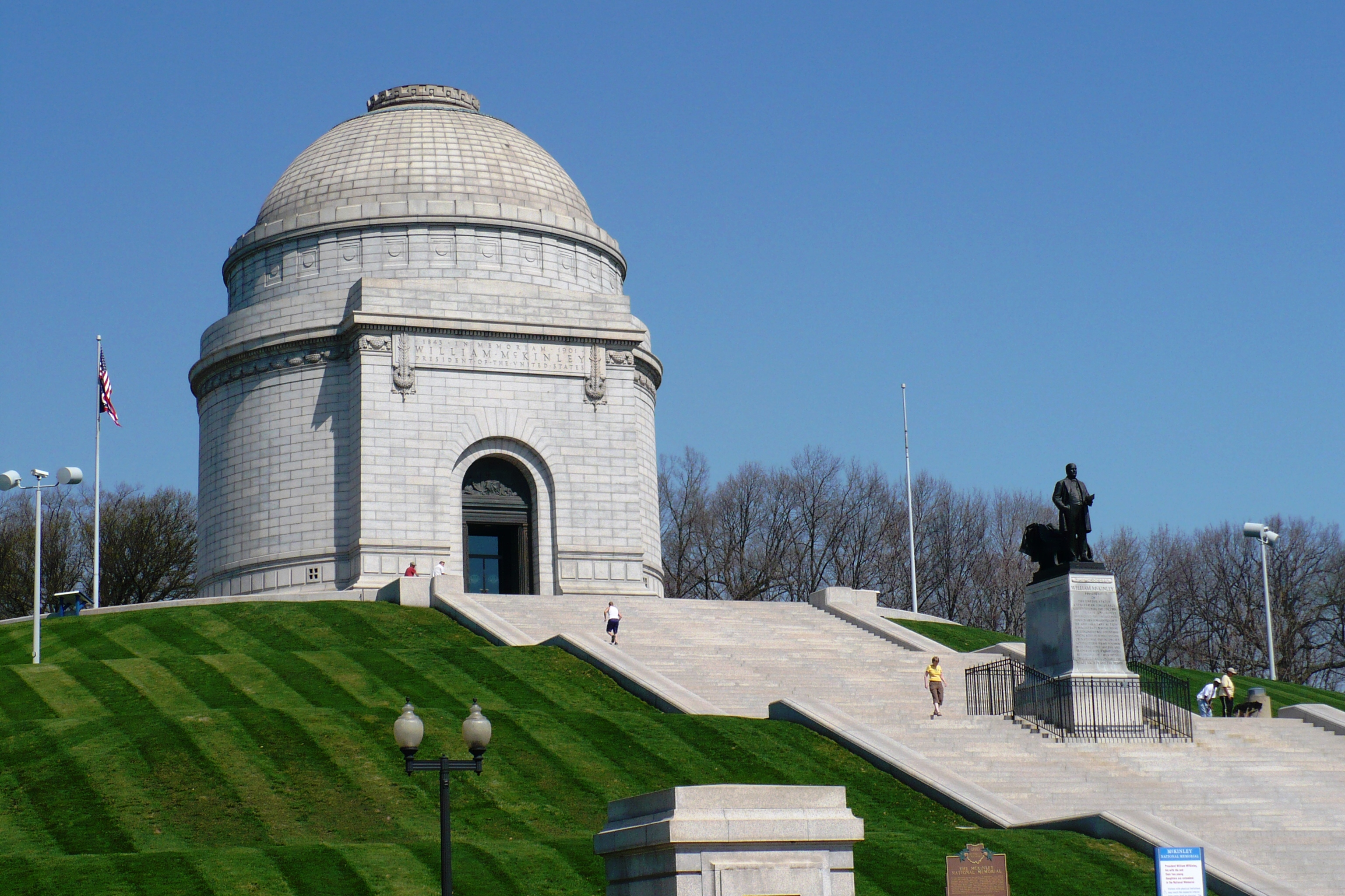 William McKinley Monument Canton OH